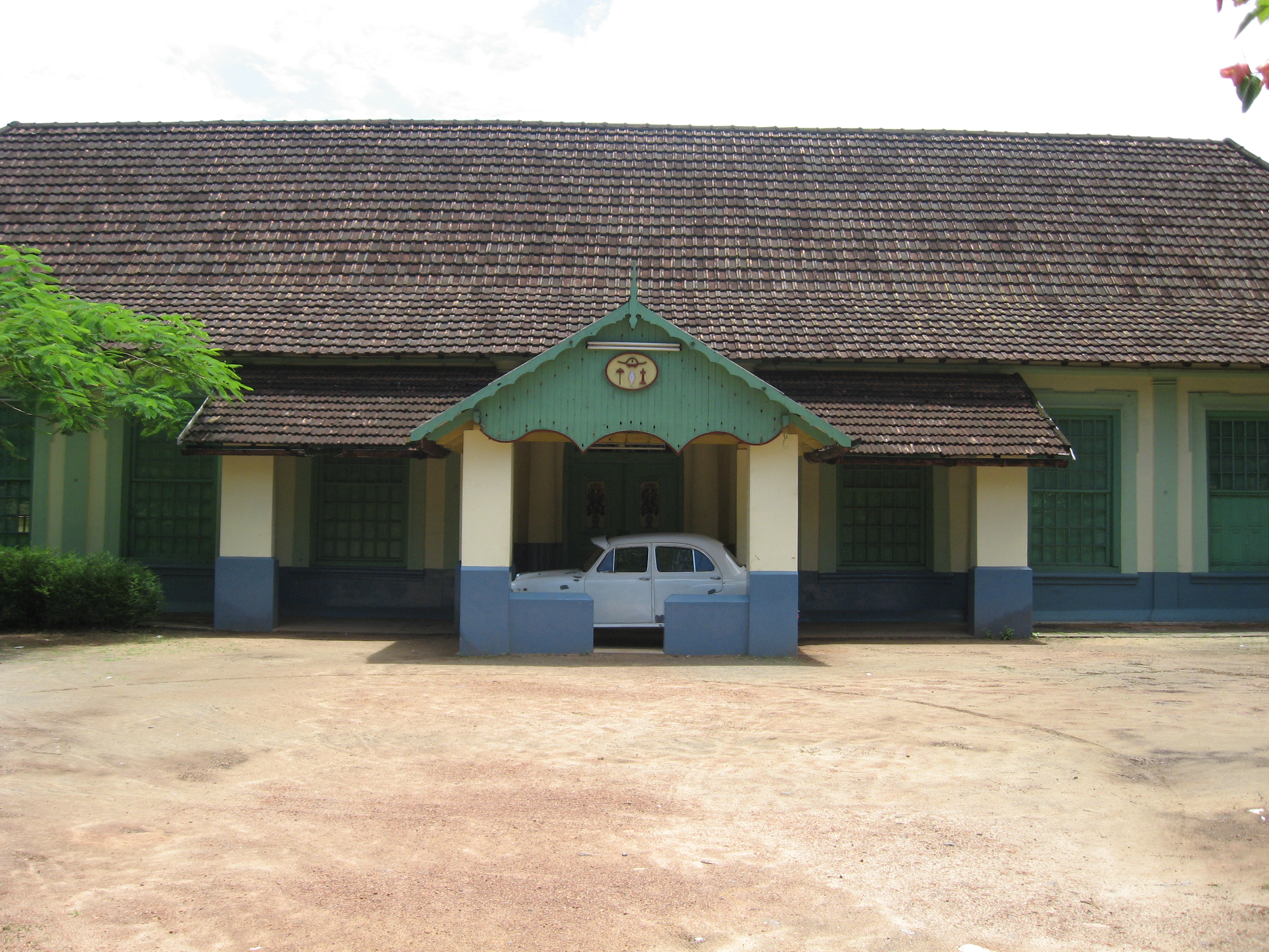 Kalikkotta_Thripunithura